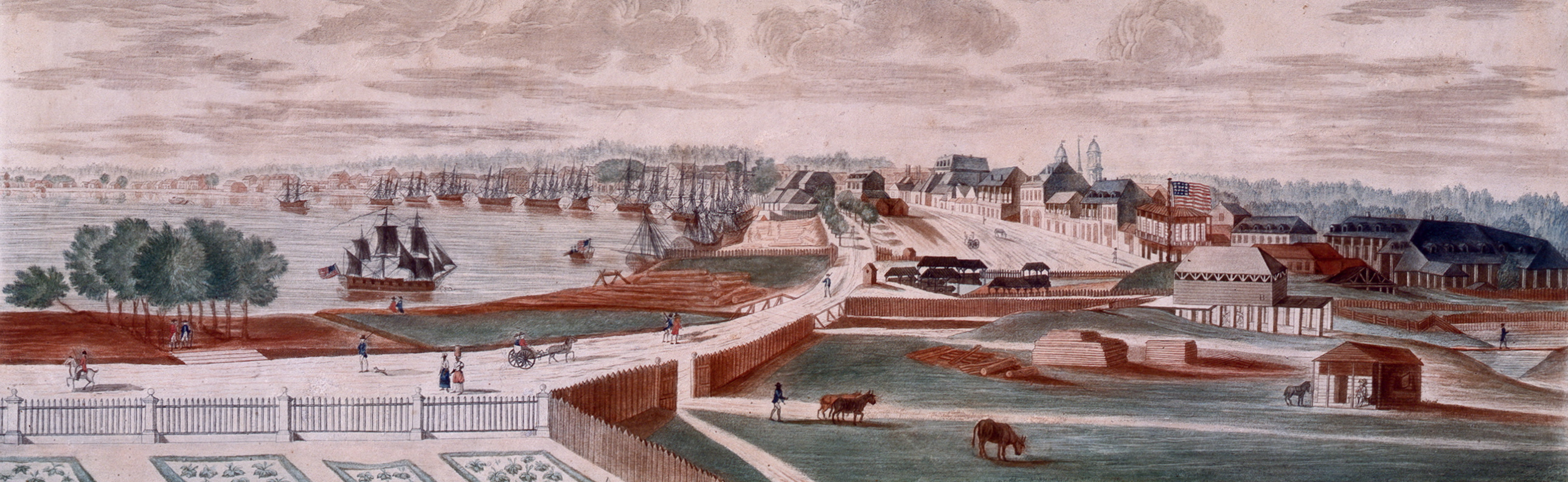 New Orleans in 1803. "Under My Wings Every Thing Prospers" by New Orleans artist J. L. Bouqueto de Woiseri, to celebrate his pleasure with the Louisiana Purchase and his expectation that economic prosperity would result under U.S. administration. US eagle hovers above a view of the city holding in its beak a banner reading "UNDER MY WINGS EVERY THING PROSPERS". View of the city's looking upriver from the riverfront of the Marigny plantation.